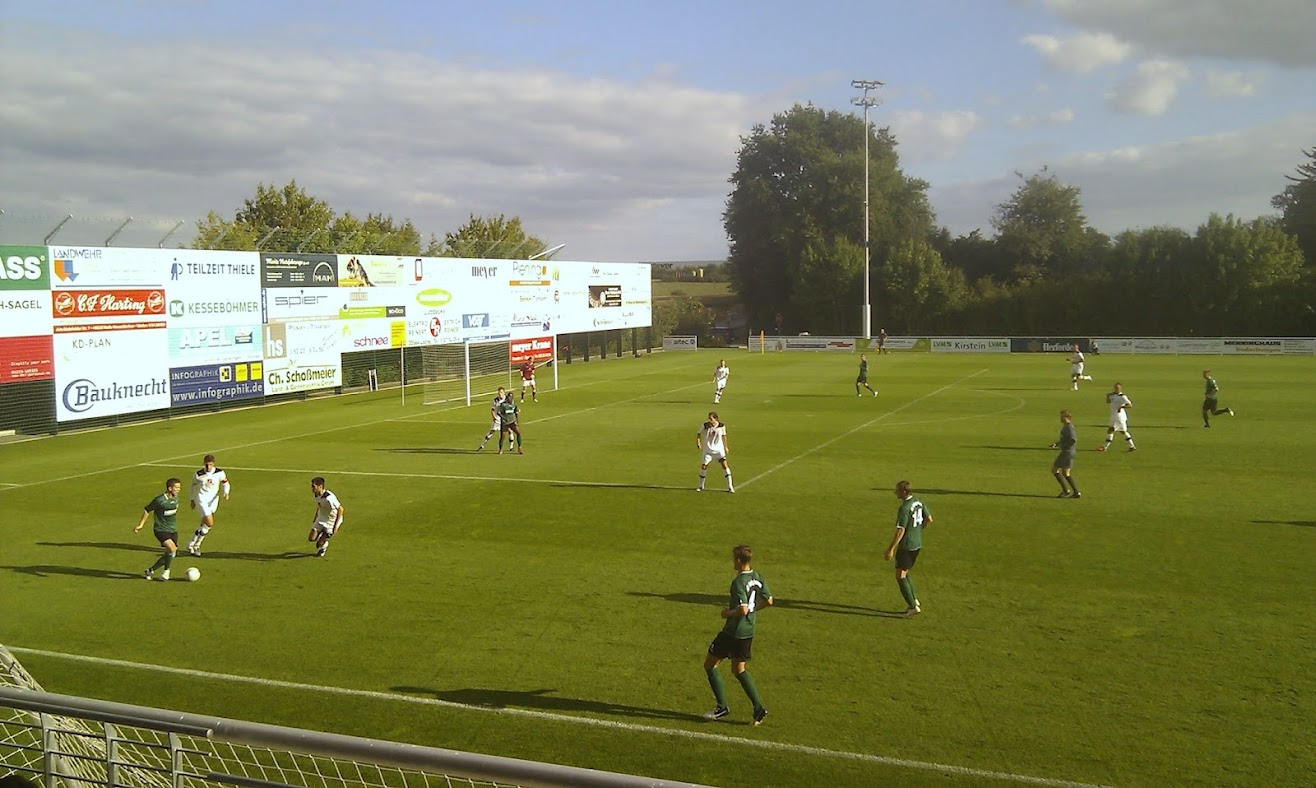 Häcker-Stadium in Rödinghausen, District of Herford, North Rhine-Westphalia, Germany.